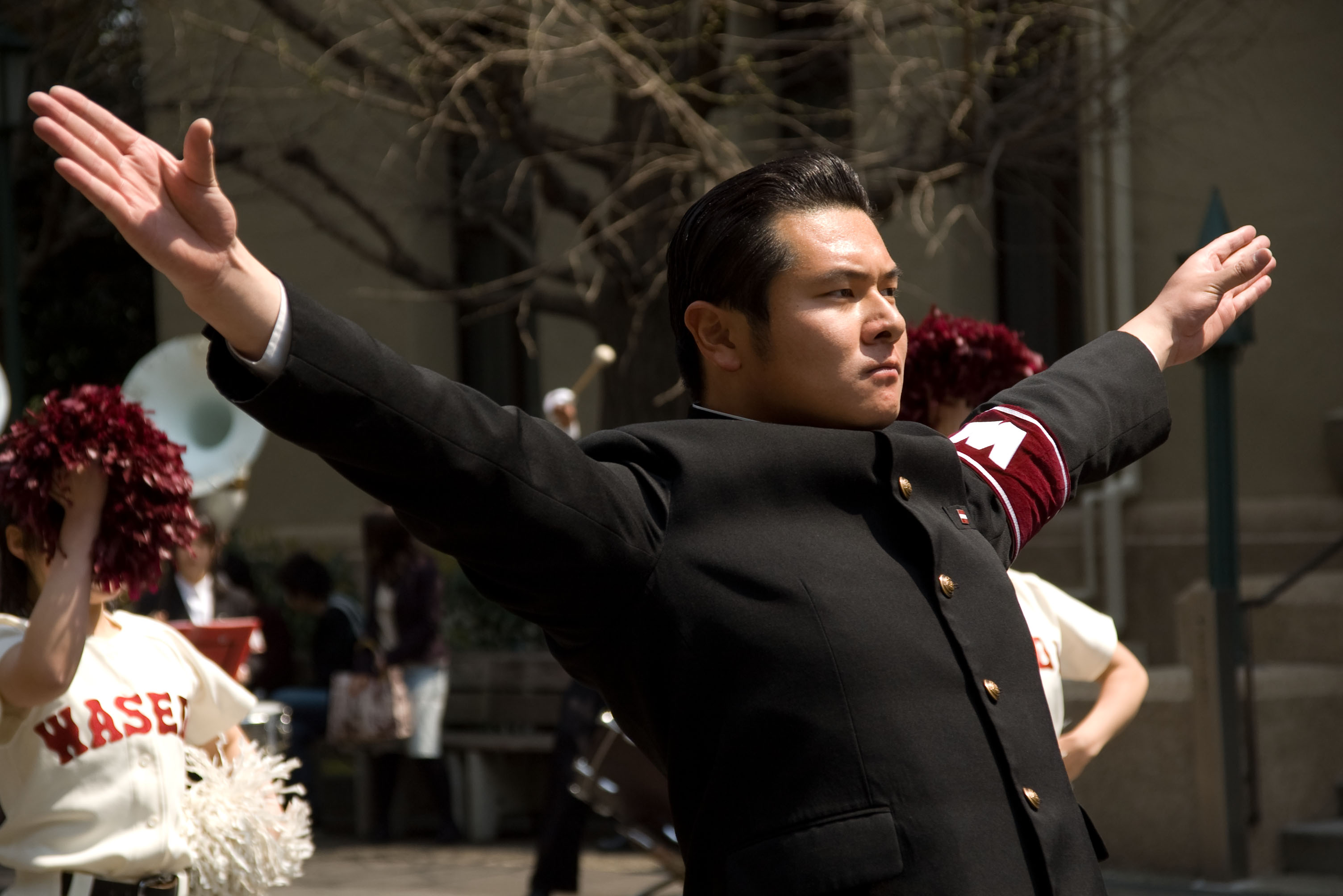 A cheerleader of the Waseda University, possibly for their baseball team.